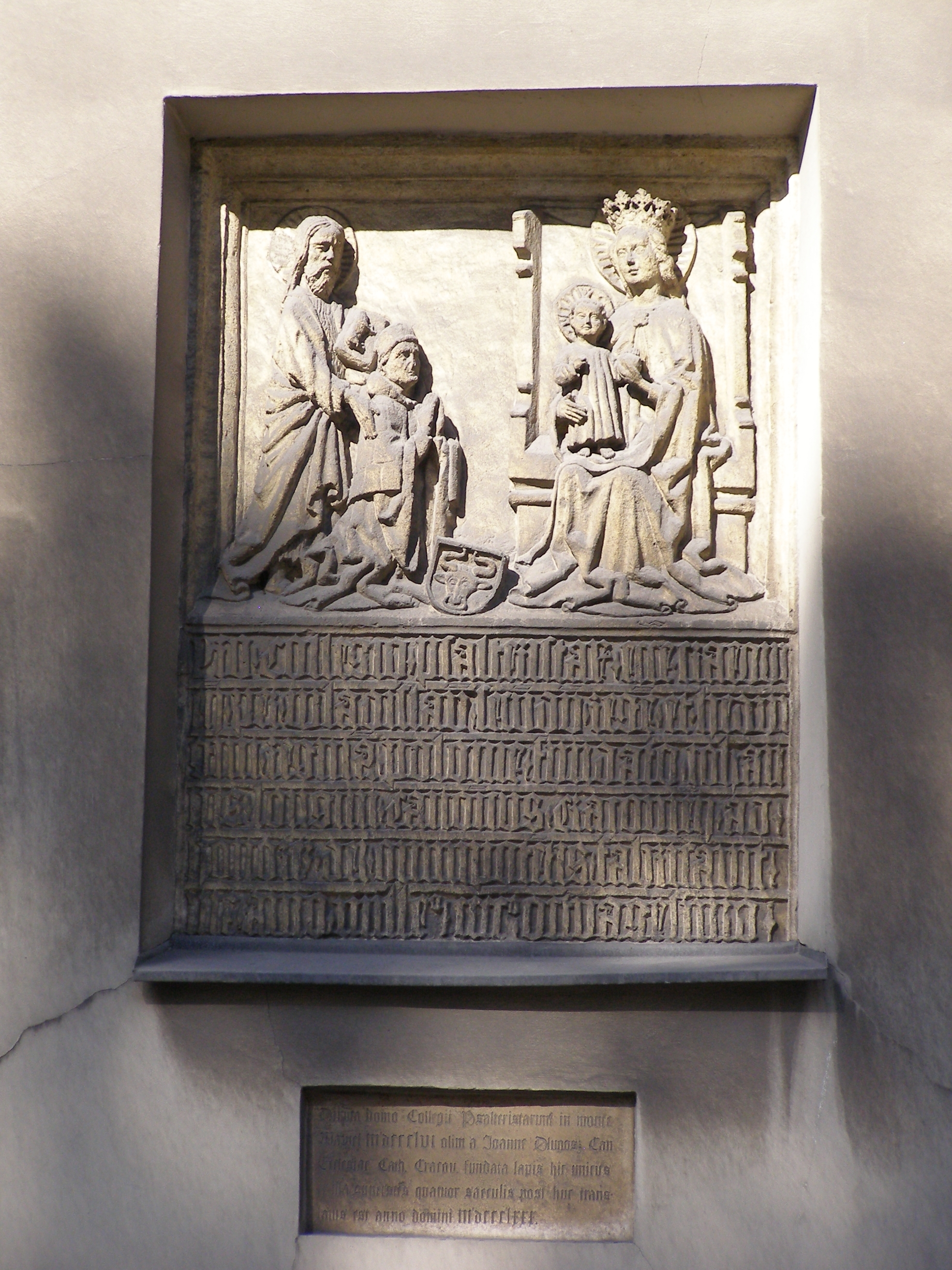 Kraków - Długosz House - a foundation plaque from a house at Wawel